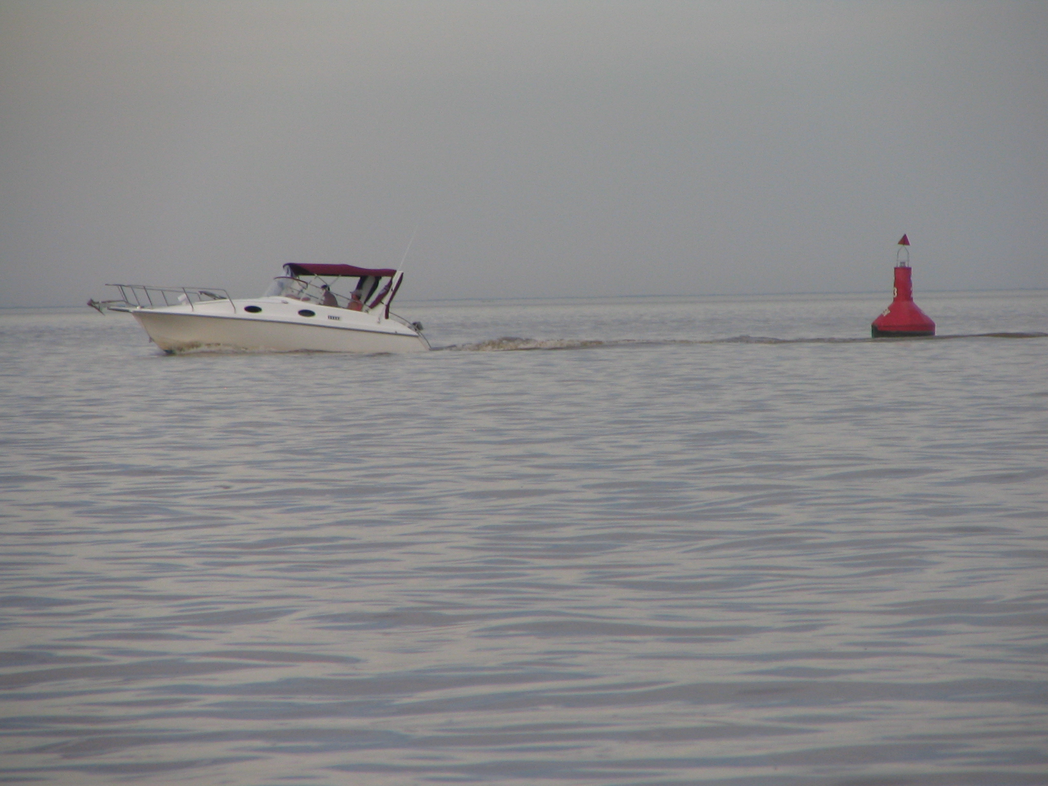 Starboard lateral Buoy (Lateral Mark System B Starboard - IALA) with a yacht passing by at "Río de la Plata" river, Buenos Aires, Argentina